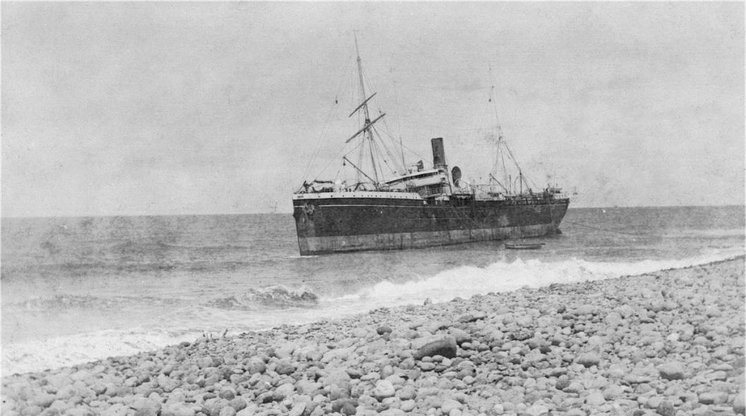 The Adour, a Messageries maritimes' ship, wrecked at St Andre, Reunion Is 30.1.13